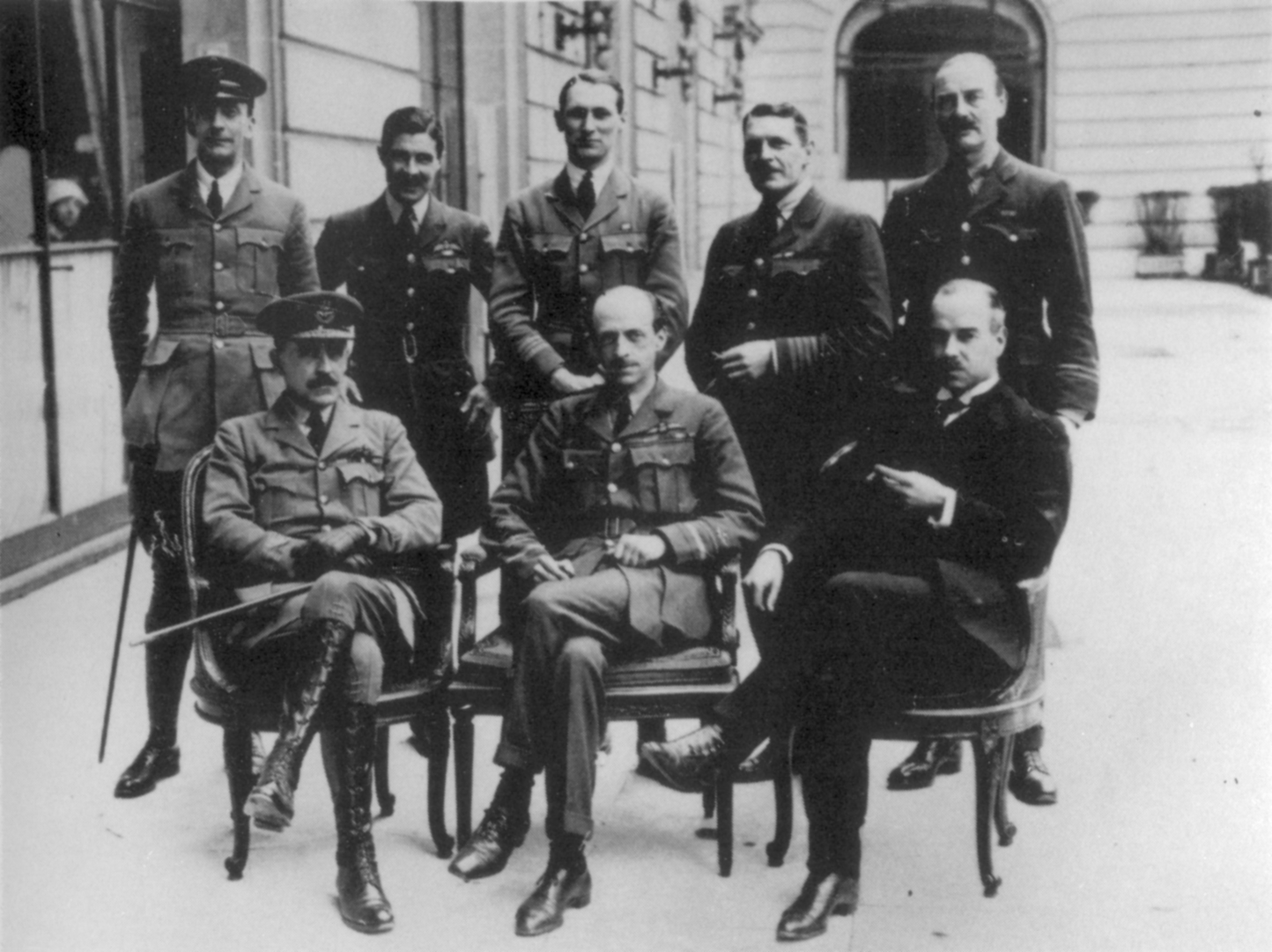 Photograph of the British Air Section at the Paris Peace Conference in February 1919. Major General Sir Frederick Sykes is seated front row centre. On Sykes's right is Colonel P R C Groves (Air Advisor to the British Ambassador) and on his left is Mr H White-Smith (representing civil aviation). Standing at the back are (as shown left to right): Captain Crosbie, Captain Tindal-Atkinson, an unidentified major, Colonel L F Blandy and Captain Lyall.